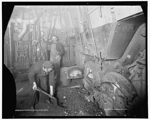 Part of the fireroom of the USS Massachusetts (BB-2)